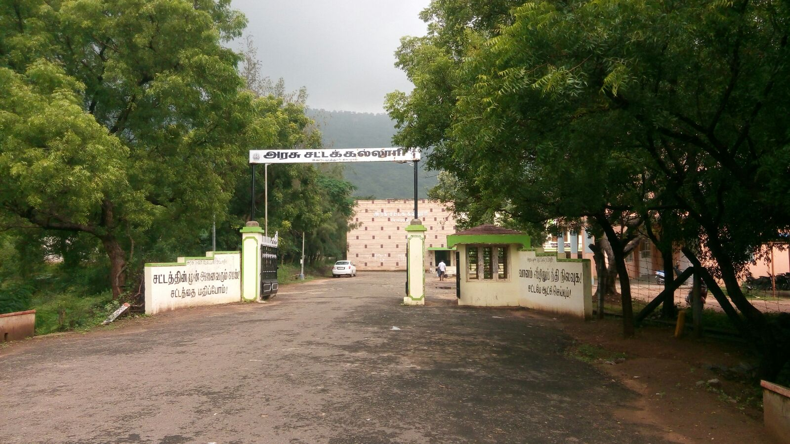 Image of the Government Law College Coimbatore